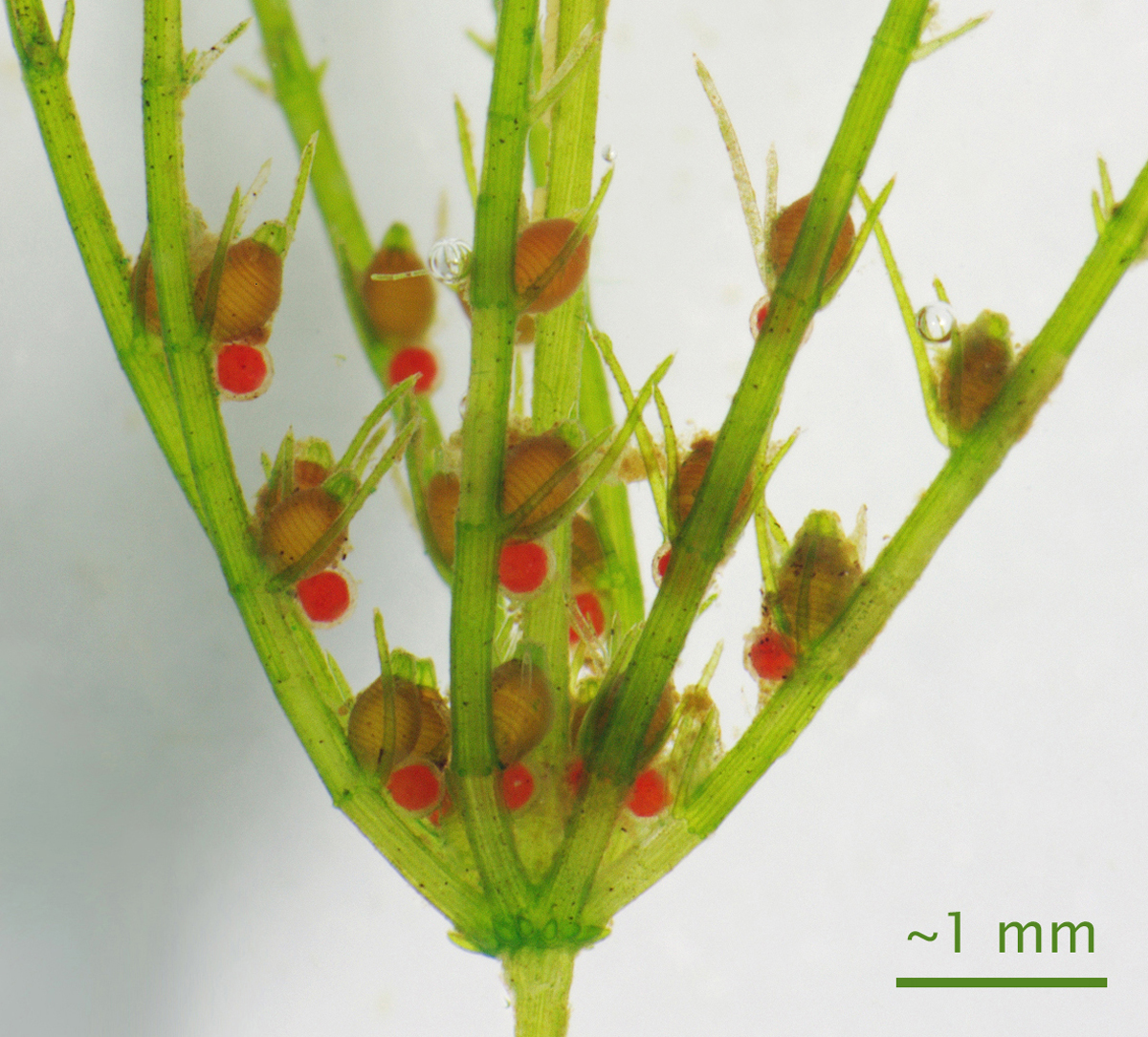 Close-up detail of a stoneworts alga, probably the species Chara virgata (Syn.: Chara delicatula; Characeae). Note the typical reproductive organs: male antheridia (red) and female archegonia (brown).